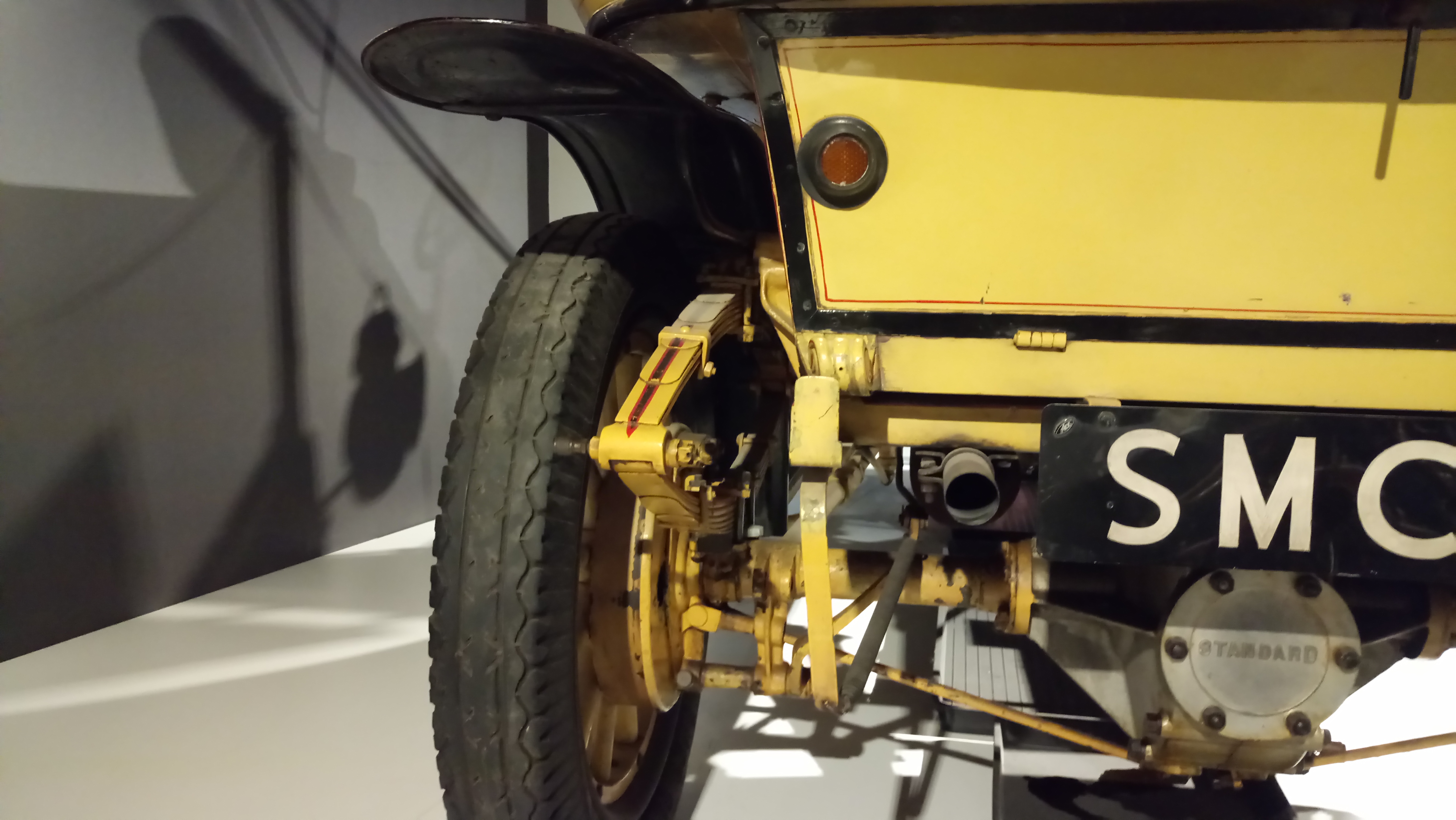 Rear suspension of a 1906 Standard motor car as photographed at Coventry Transport Museum.